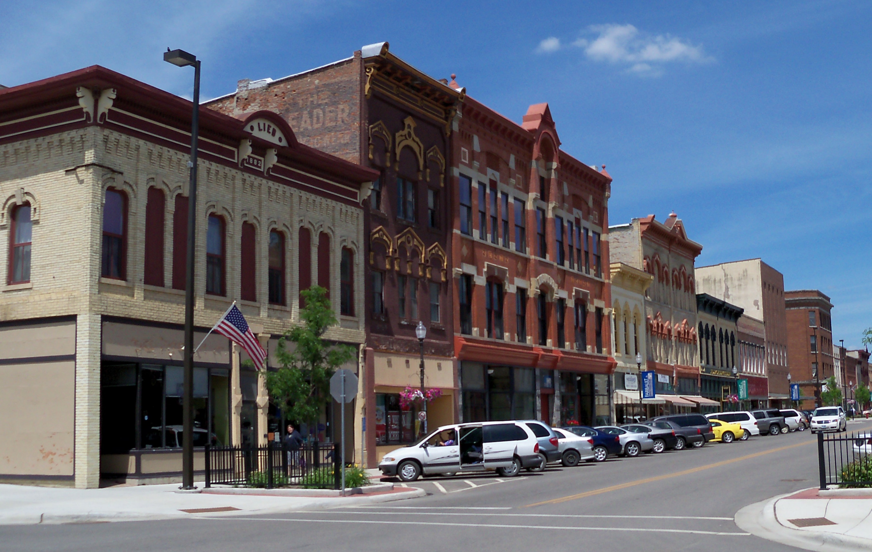 Buildings in downtown Faribault, Minnesota, USA.